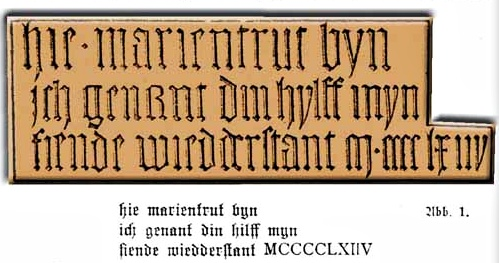 Burg Marientraut, Hanhofen, Inschrift des Bischofs Matthias von Rammung, 1463